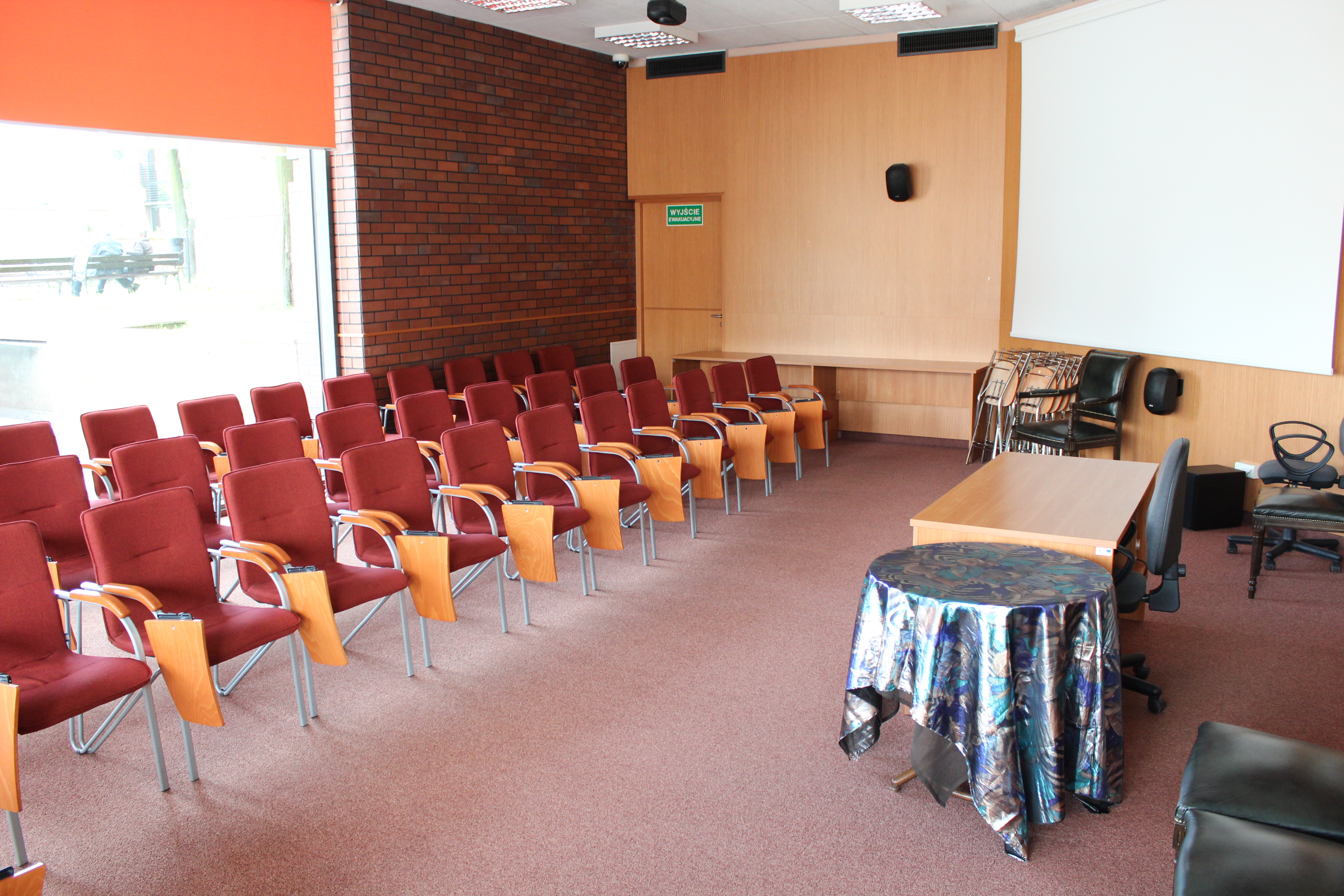 Auditorium of City Public Library in Jaworzno.